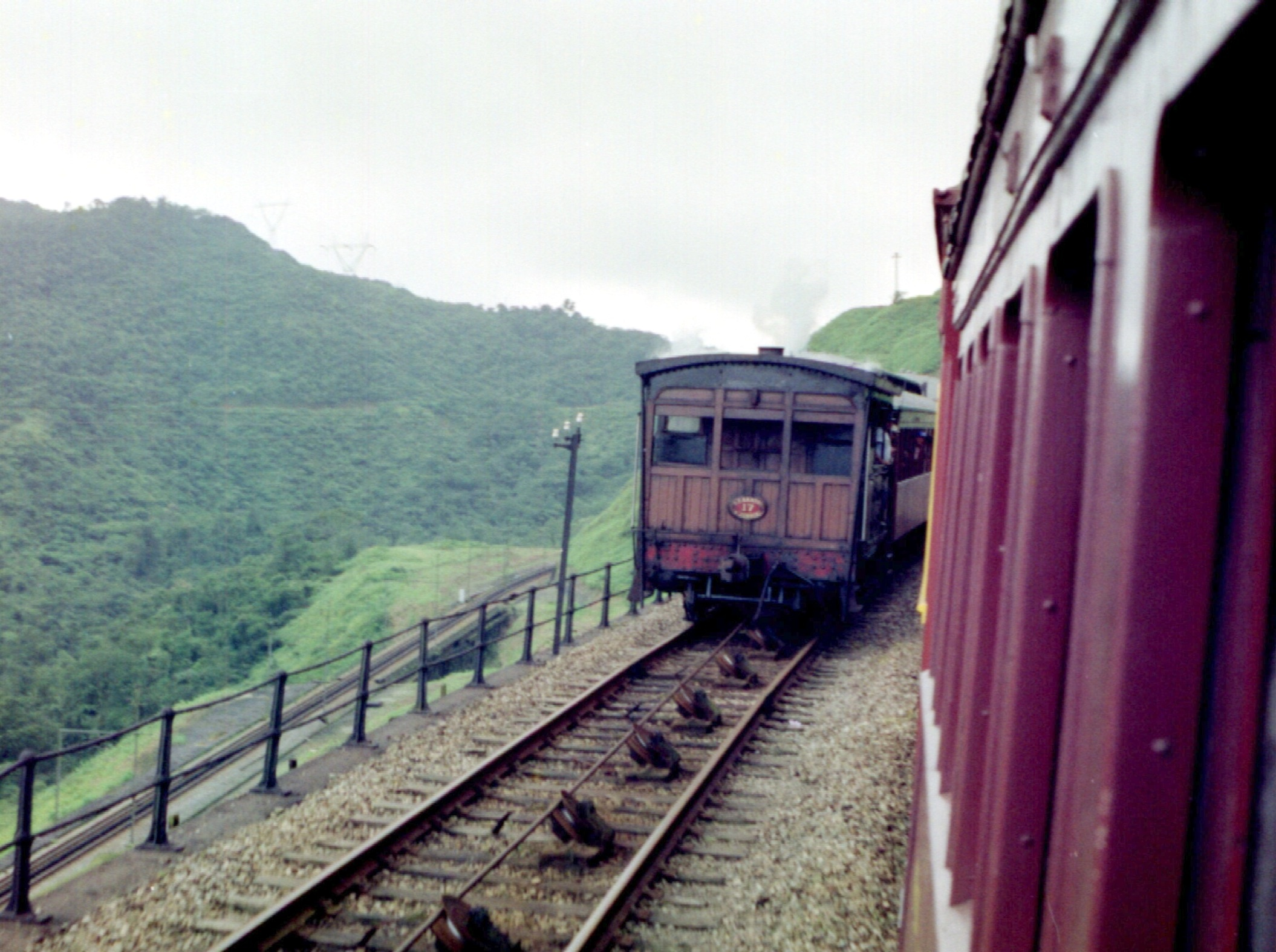 Funicular of Paranapiacaba